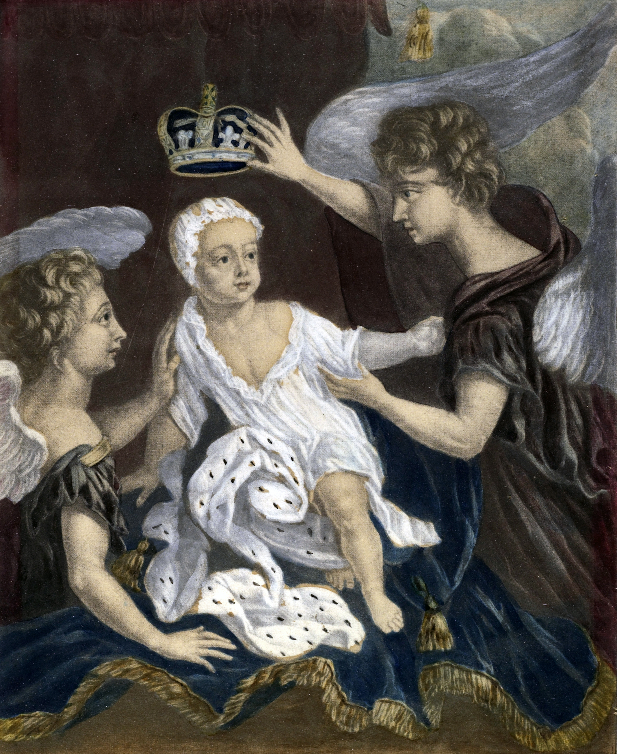 Portrait of Prince James as young boy in white dress and robes, with blue and gold blanket, being crowned by two angels.